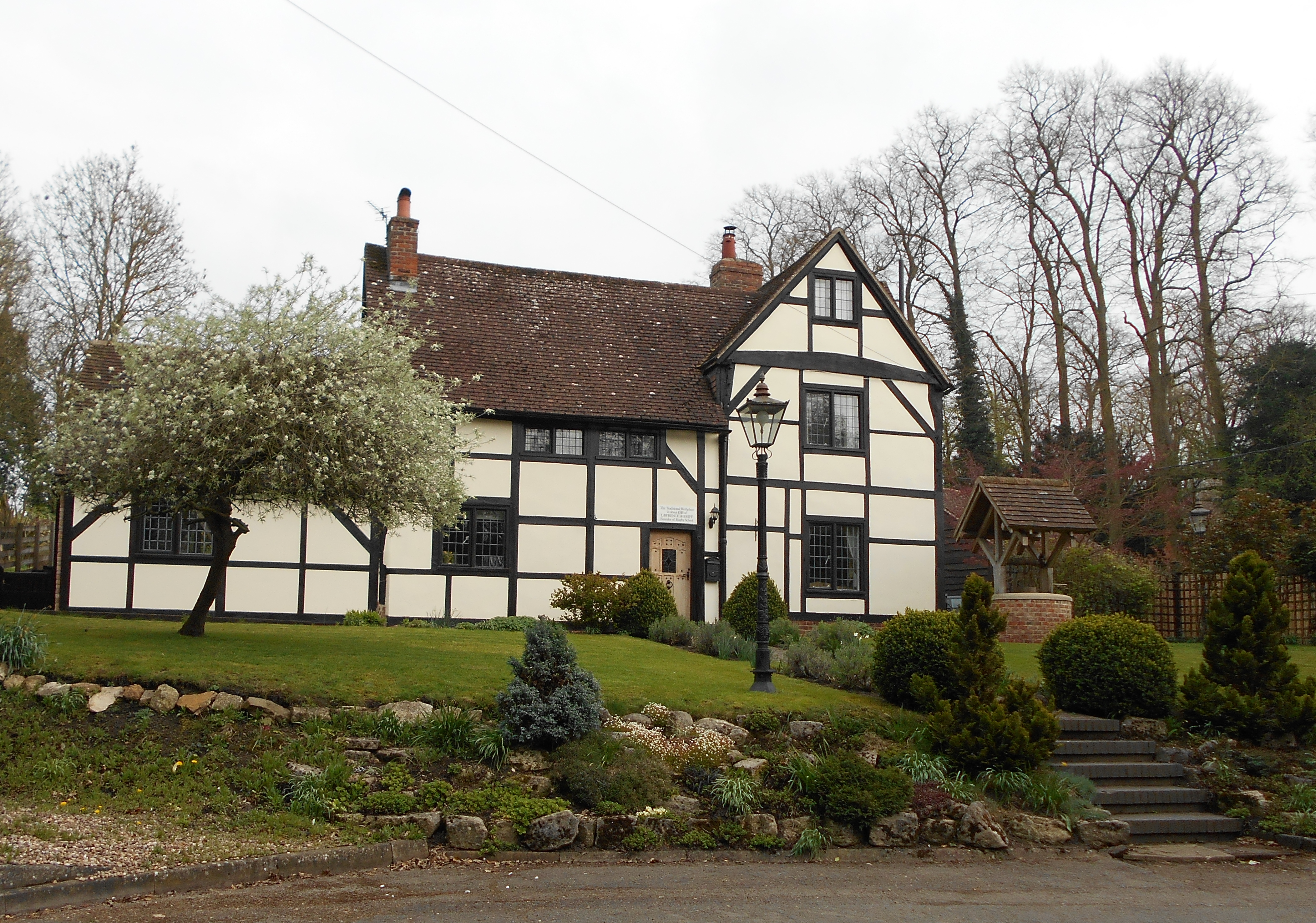 The trditional birthplace of Lawrence Sheriff, Browsover, Rugby